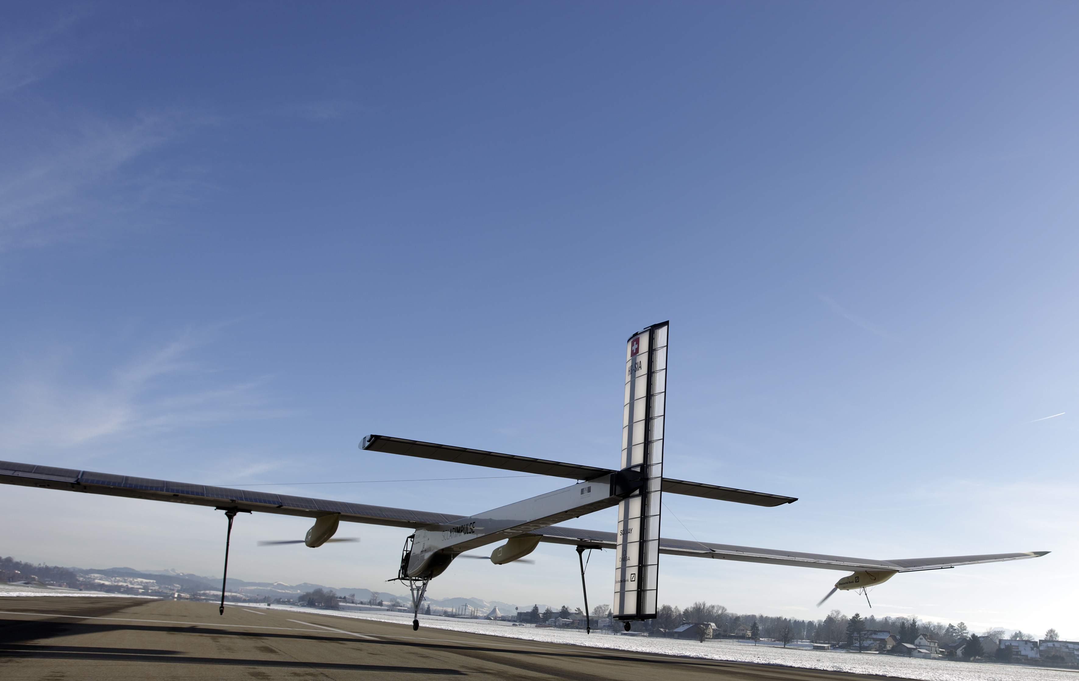 HB-SIA makes its first "flea hop" on 3 December 2009 in Dübendorf.